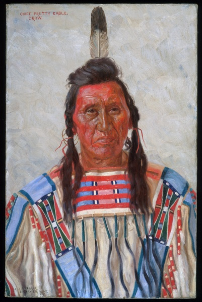 Portrait of chief Pretty Eagle, a Crow Nation Indian chief. Painted by E.A Burbank 1897.